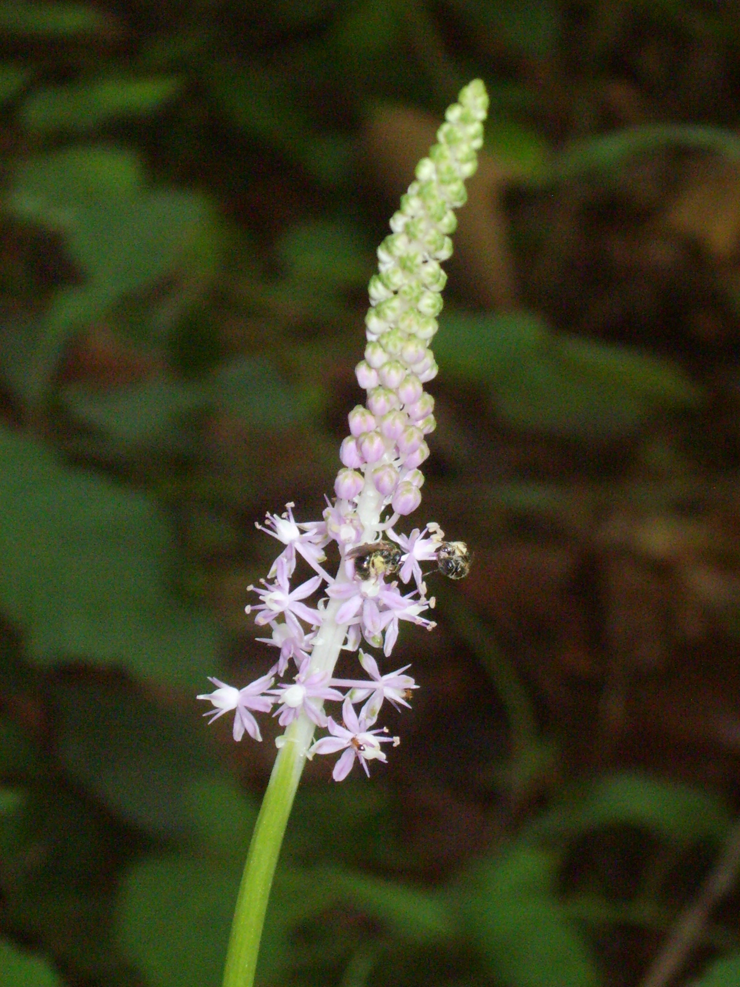 Barnardia japonica flowers in Incheon, Korea